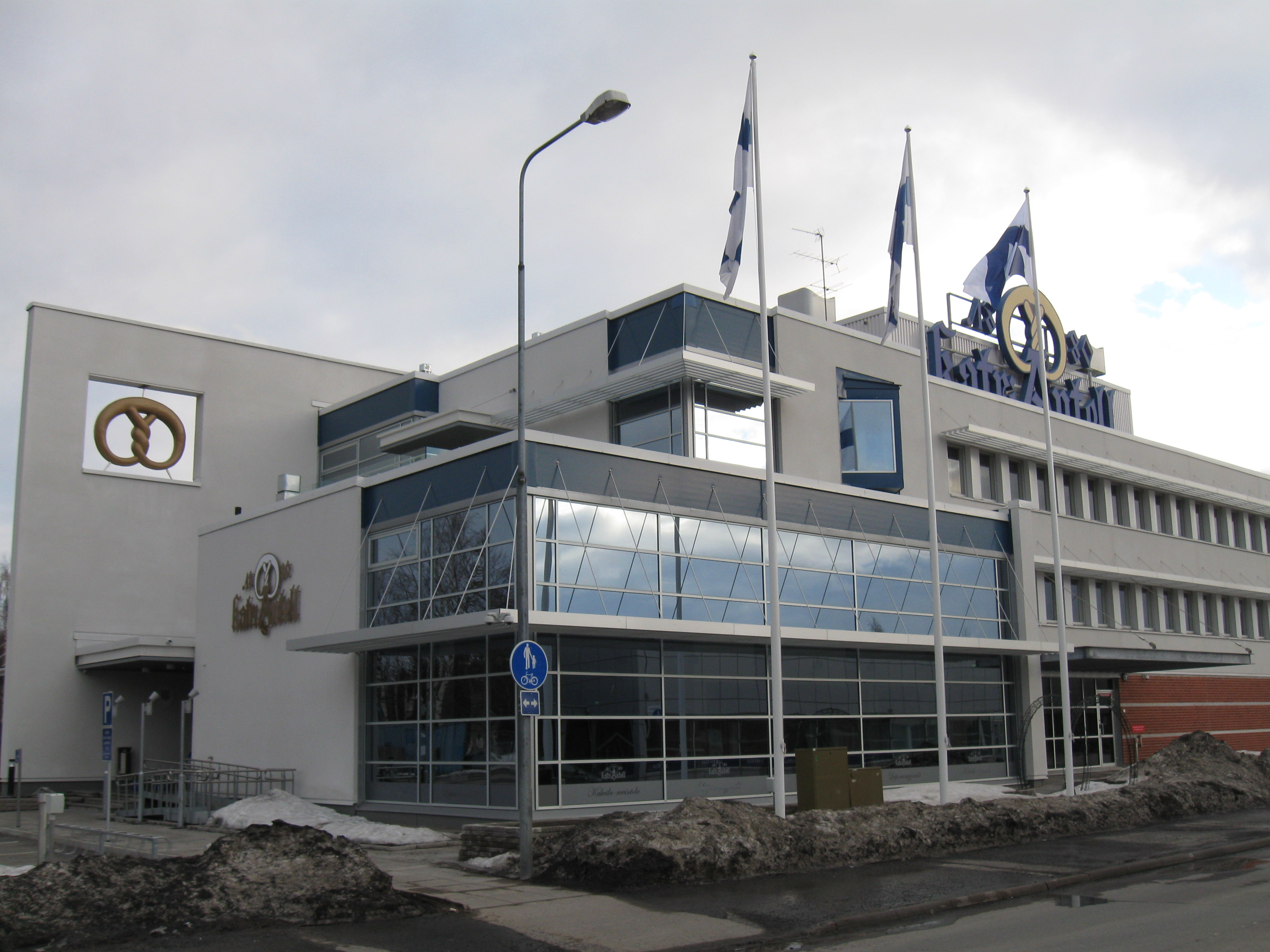 The headquarters of Katri Antell bakery and catering service company in Karjasilta (Taka-Lyötty), Oulu, Finland.